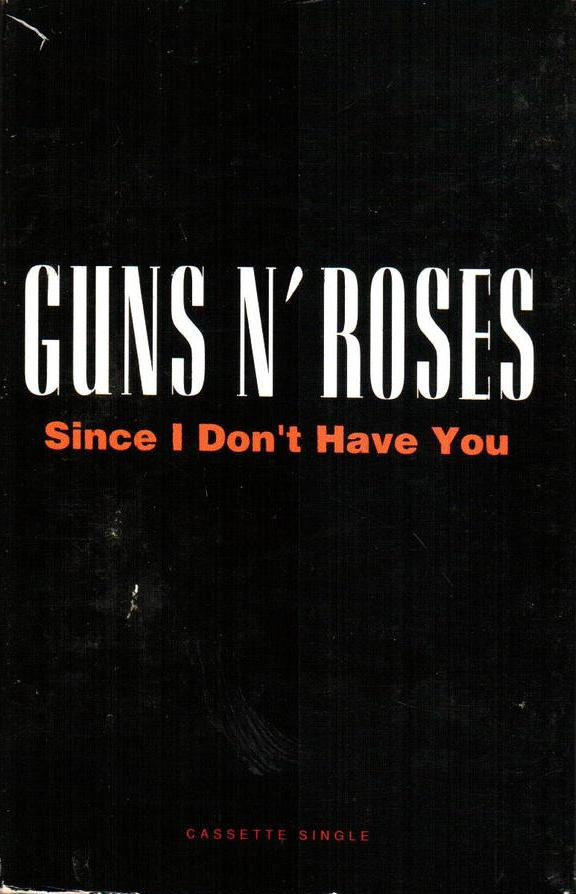 U.S. cassette edition of "Since I Don't Have You" by Guns N' Roses